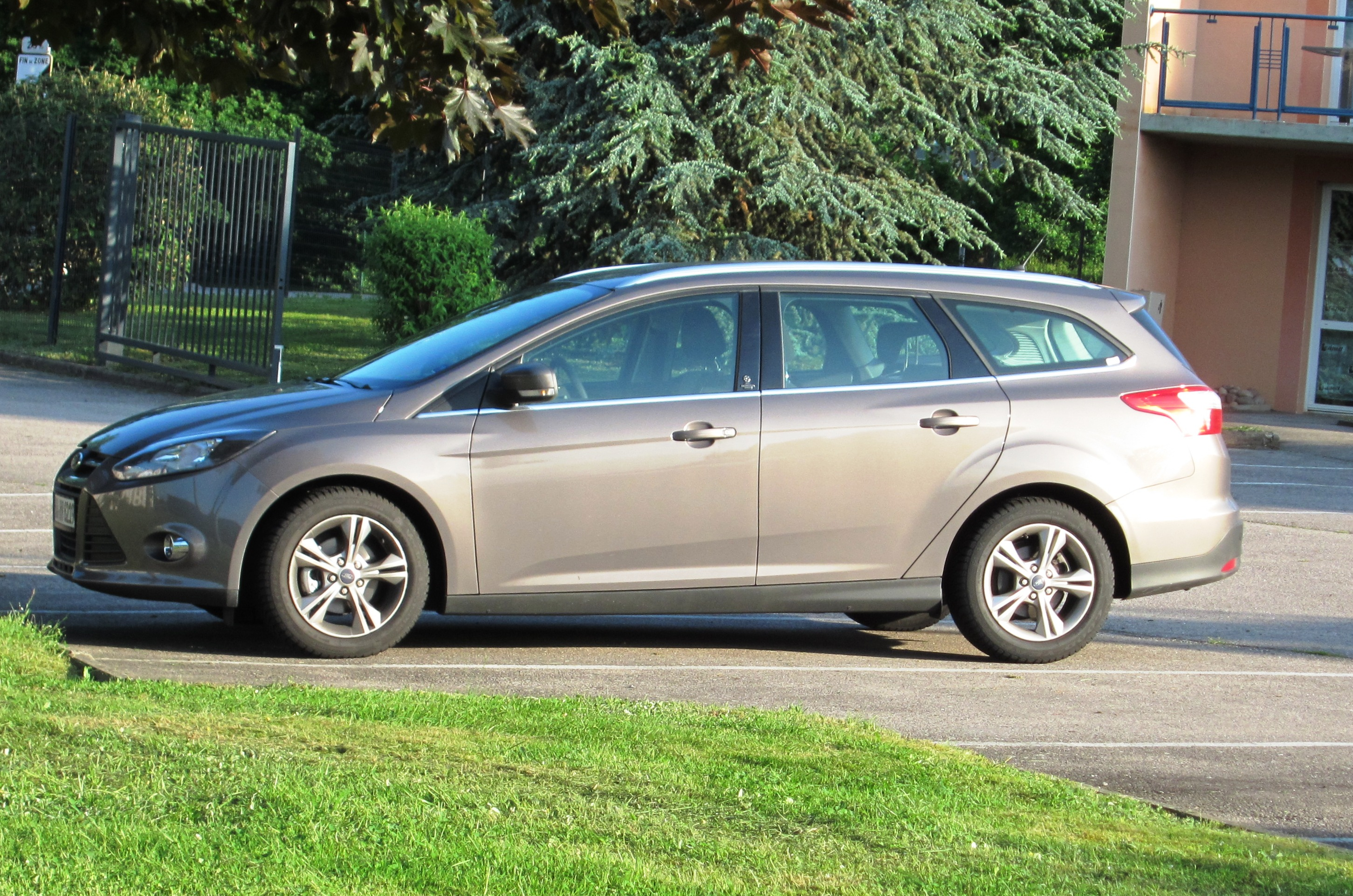 Ford Focus estate Mk III